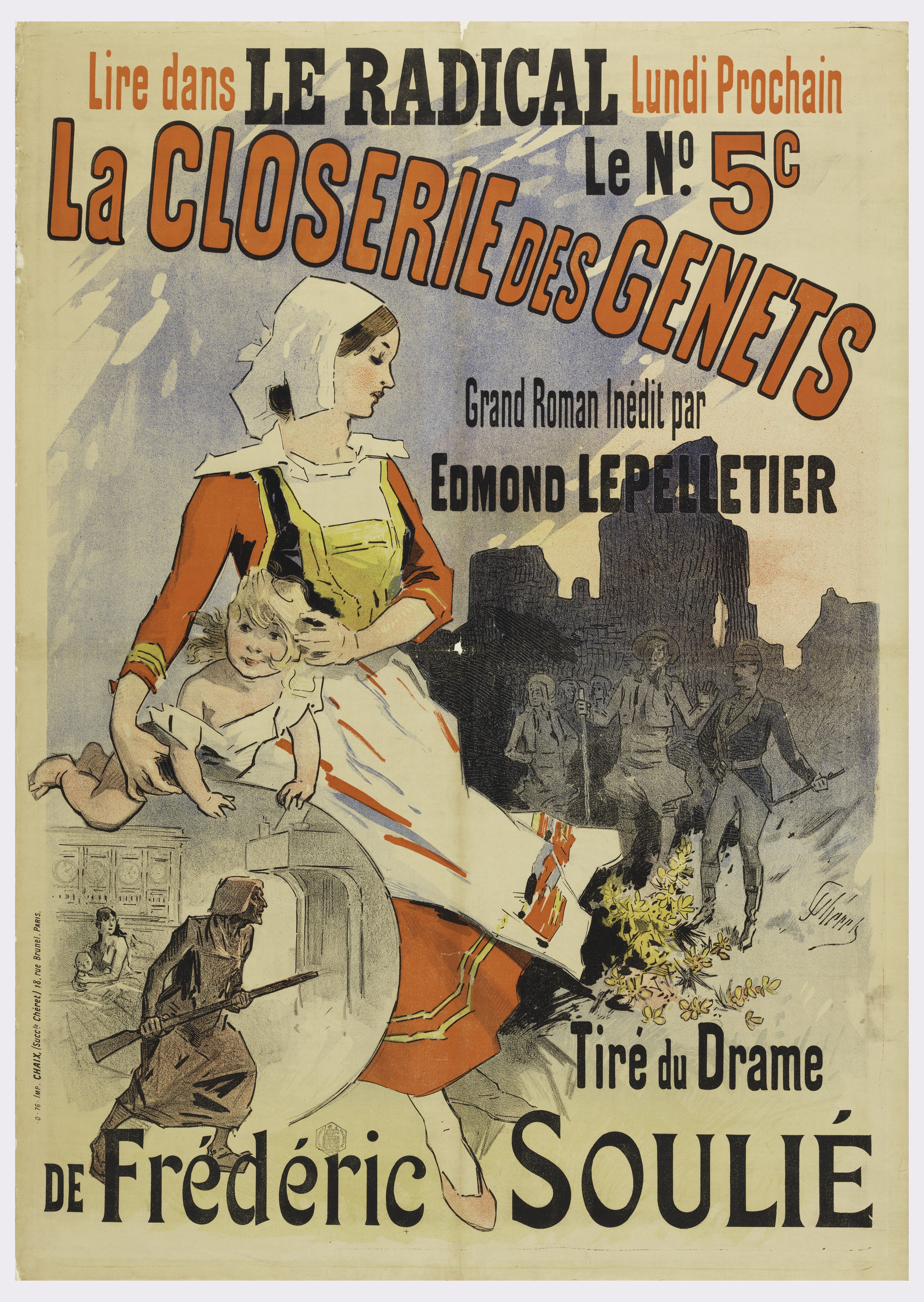 Poster featuring young woman with child, Bastille in the background. Text in black and red across top.